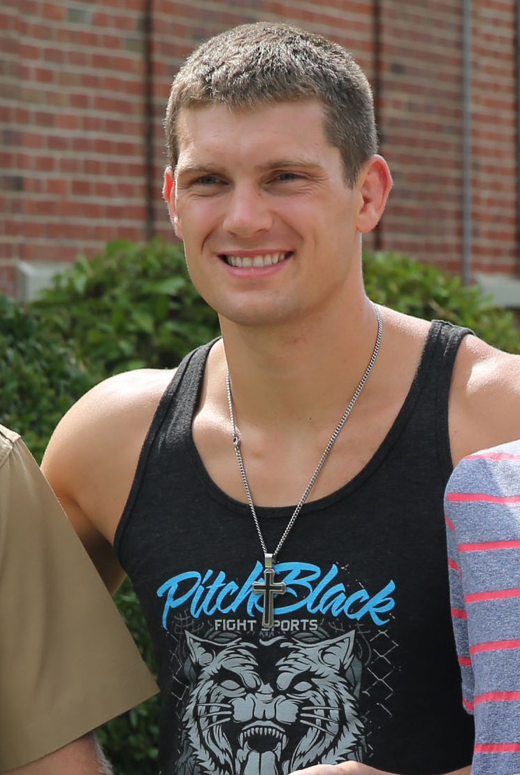 Lt. Col. William Stophel, the commanding officer for Combat Logistics Battalion 2, 2nd Marine Logistics Group, UFC Fighter Stephen Thompson, Austin Saxton, Christina Saxton, and Capt. Lee Stuckey, the company commander for Transportation and Support Company, Combat Logistics Battalion 2, 2nd Marine Logistics Group, pose for a photo after Austin was awarded a plaque for being a true warrior at Camp Lejeune, N.C., Aug. 02, 2013. Austin was diagnosed with Pancreatic and liver cancer, but never gave up fighting. (U.S. Marine Corps photo by Cpl. Devin Nichols)